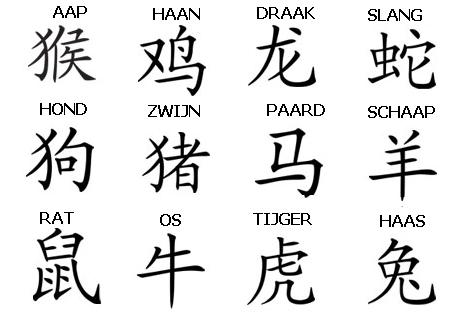 China Constellation